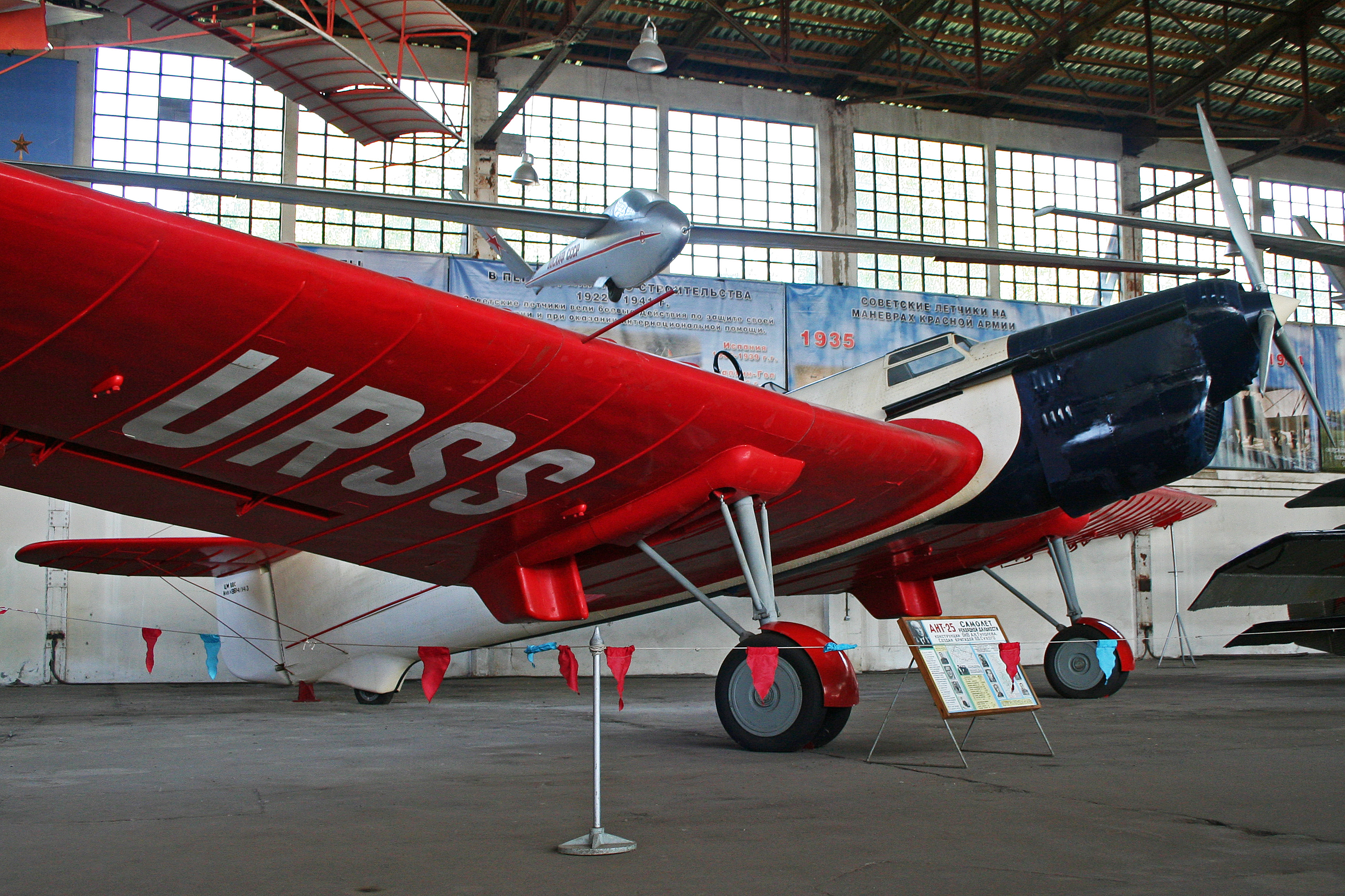 The Tupolev ANT-25 was a record breaking long distance aeroplane, two of which were built in the mid 1930's. Pilotted by either Mikhail Gromov or Valery Chkalov, the two aircraft achieved several world records for long distance flights, both closed circuit and straight line. These eventually including flights from Moscow to the USA. In 1989 this full size replica was built for the museum by the Tupolev Design Bureau. It is on display in the original display hangar of the Russian Air Force Museum. Monino, Russia. 13-8-2012